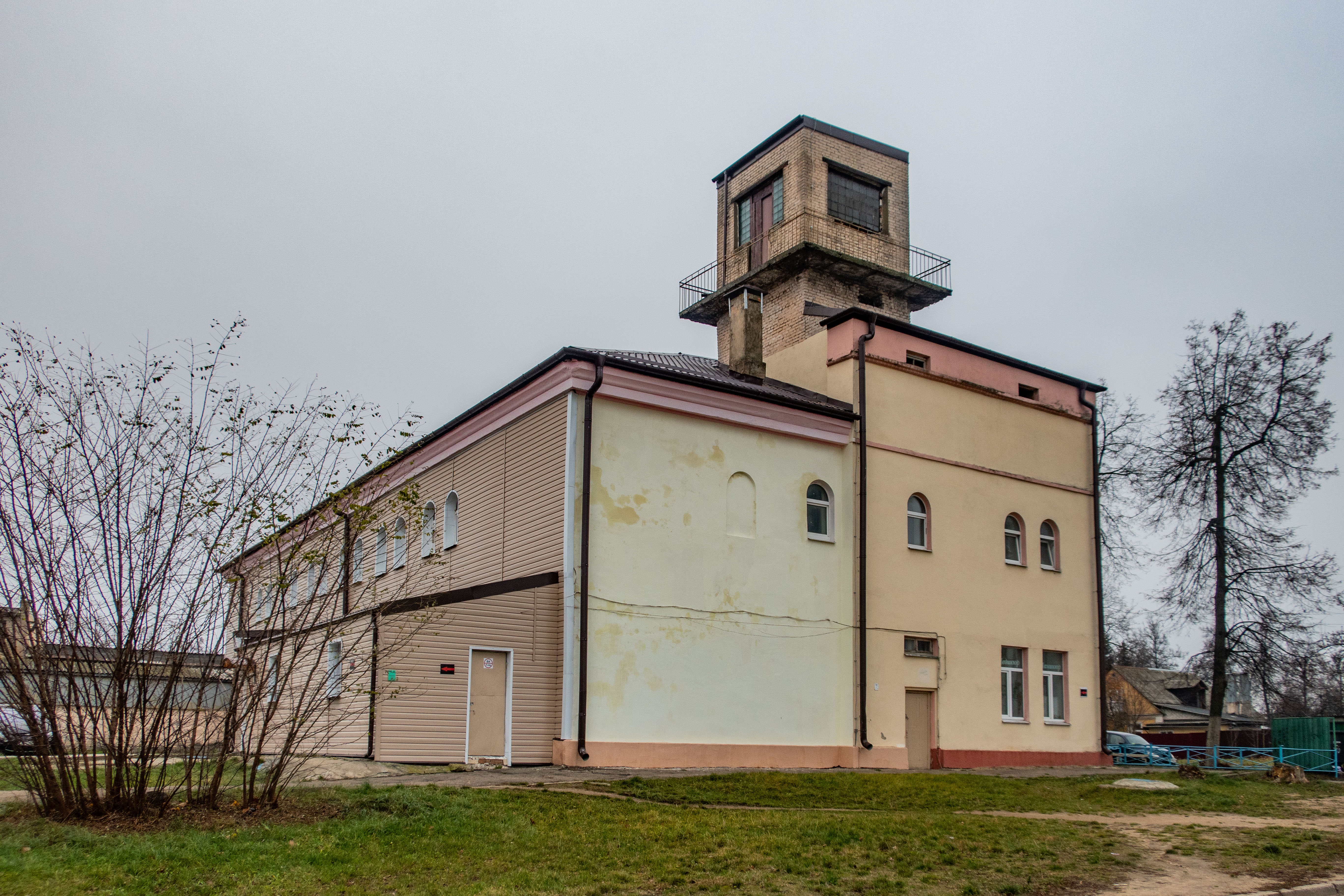 9th public bathhouse. Minsk, Belarus